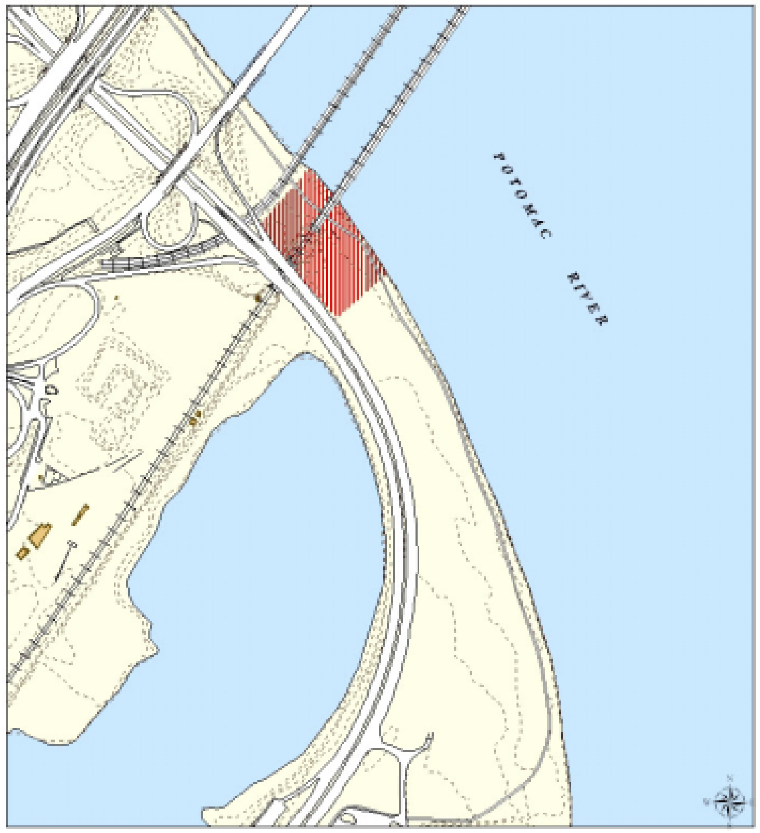 National Park Service archaeological map as part of a boathouse project along the George Washington Memorial Parkway next to the Potomac River. The red shading indicates the possibility of artifacts at the site of Fort Jackson, a 19th-century fort constructed as part of the defenses of Washington, D.C. during the American Civil War.